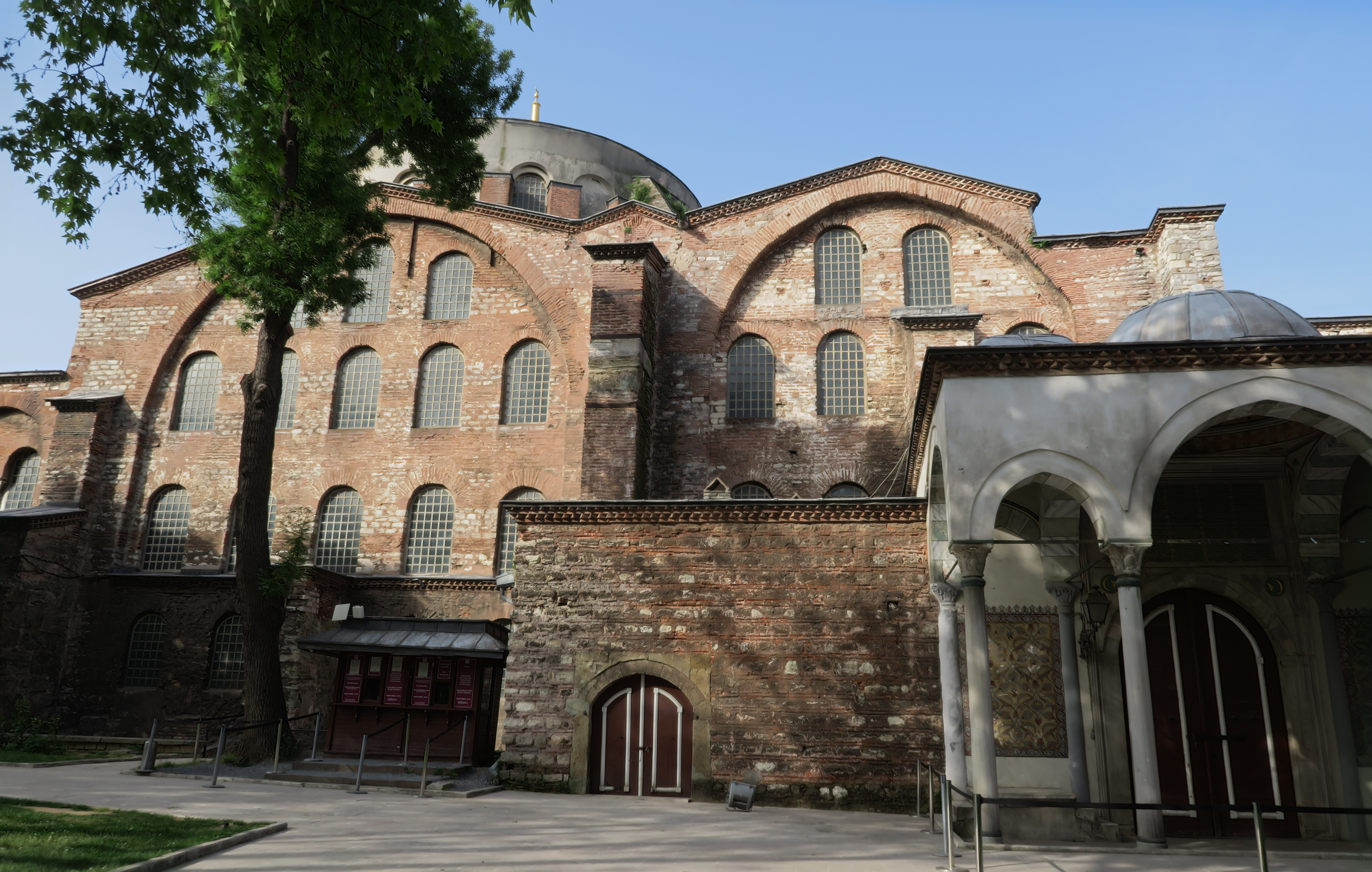 The building reputedly stands on the site of a pre-Christian temple. It is the first church built in Constantinople.